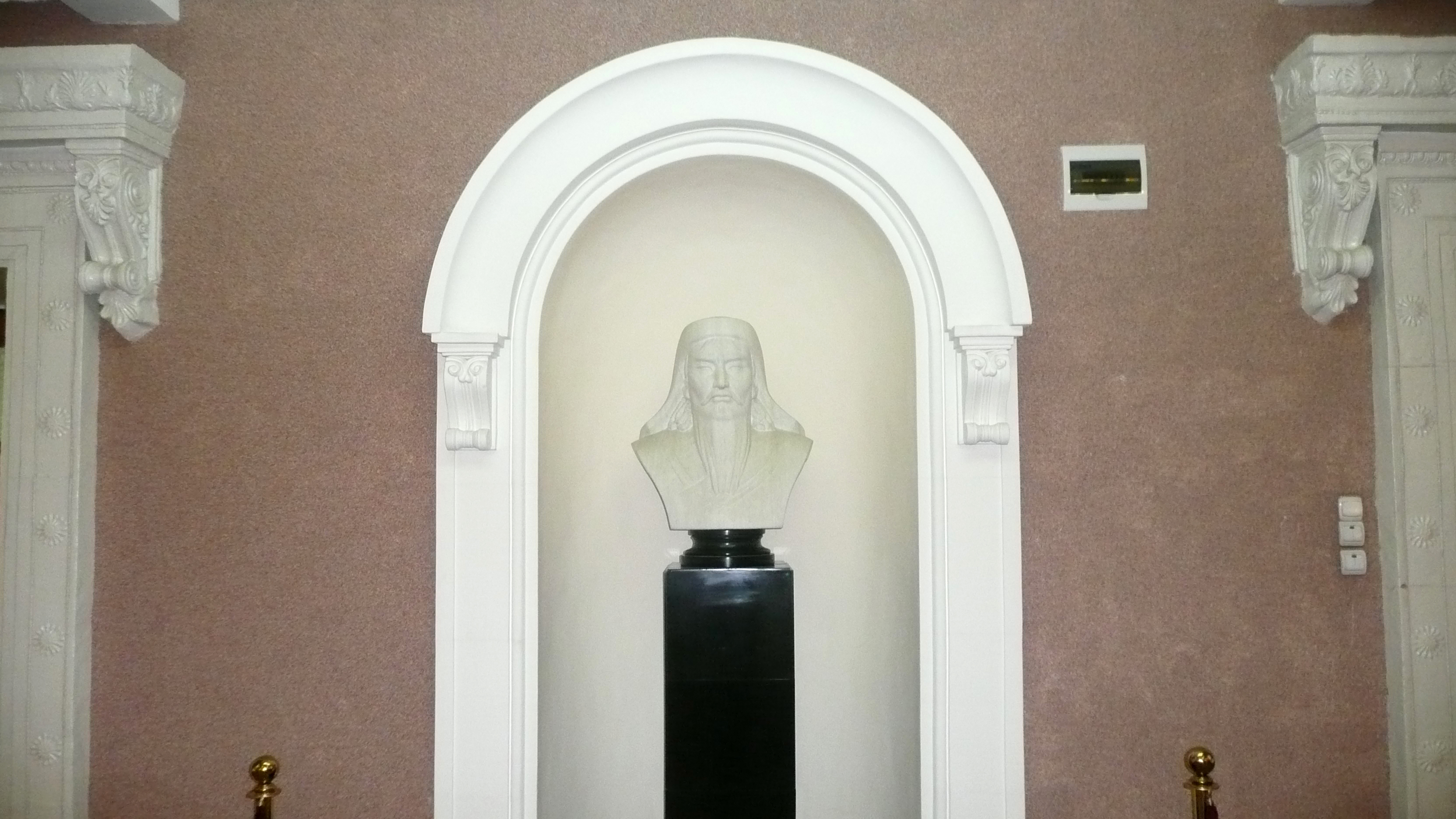 Statue of Chingis Khan in the Mongolian Parliament